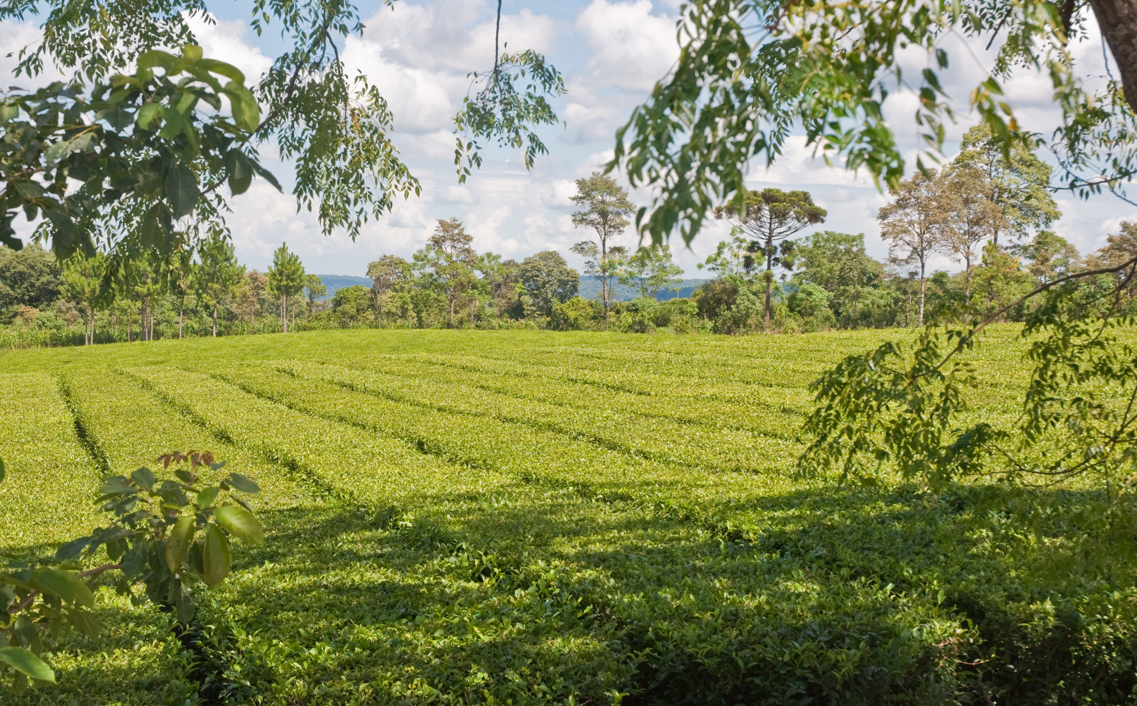 Yerba Mate, Misiones, Argentina, 5th. Jan. 2011